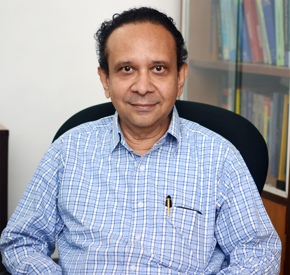 Picture of Prof. Thanu Padmanabhan in his office